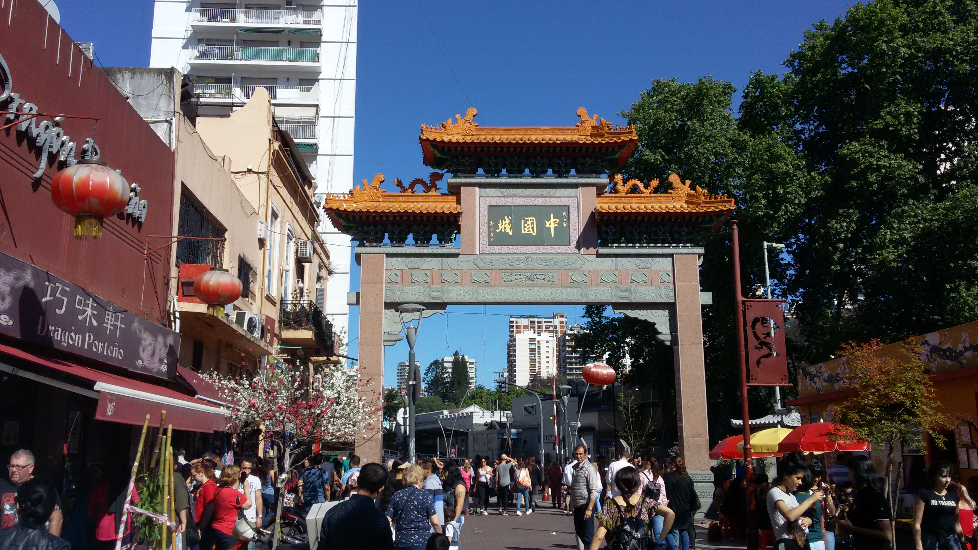 Arribeños street at the Barrio Chino (Chinatown) in Buenos Aires, Argentina